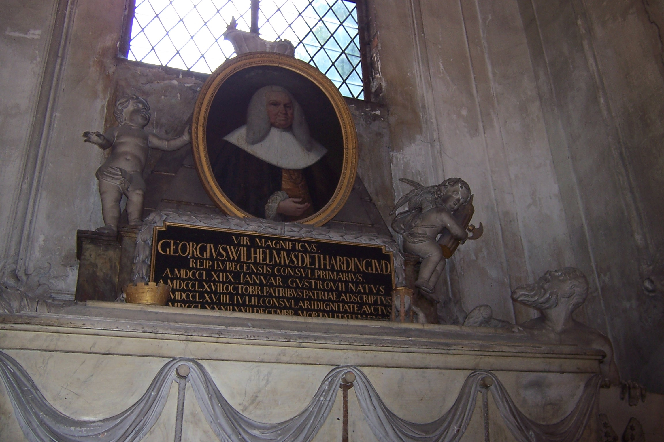 Interior of Detharding chapel in St. Katharinen, Lübeck